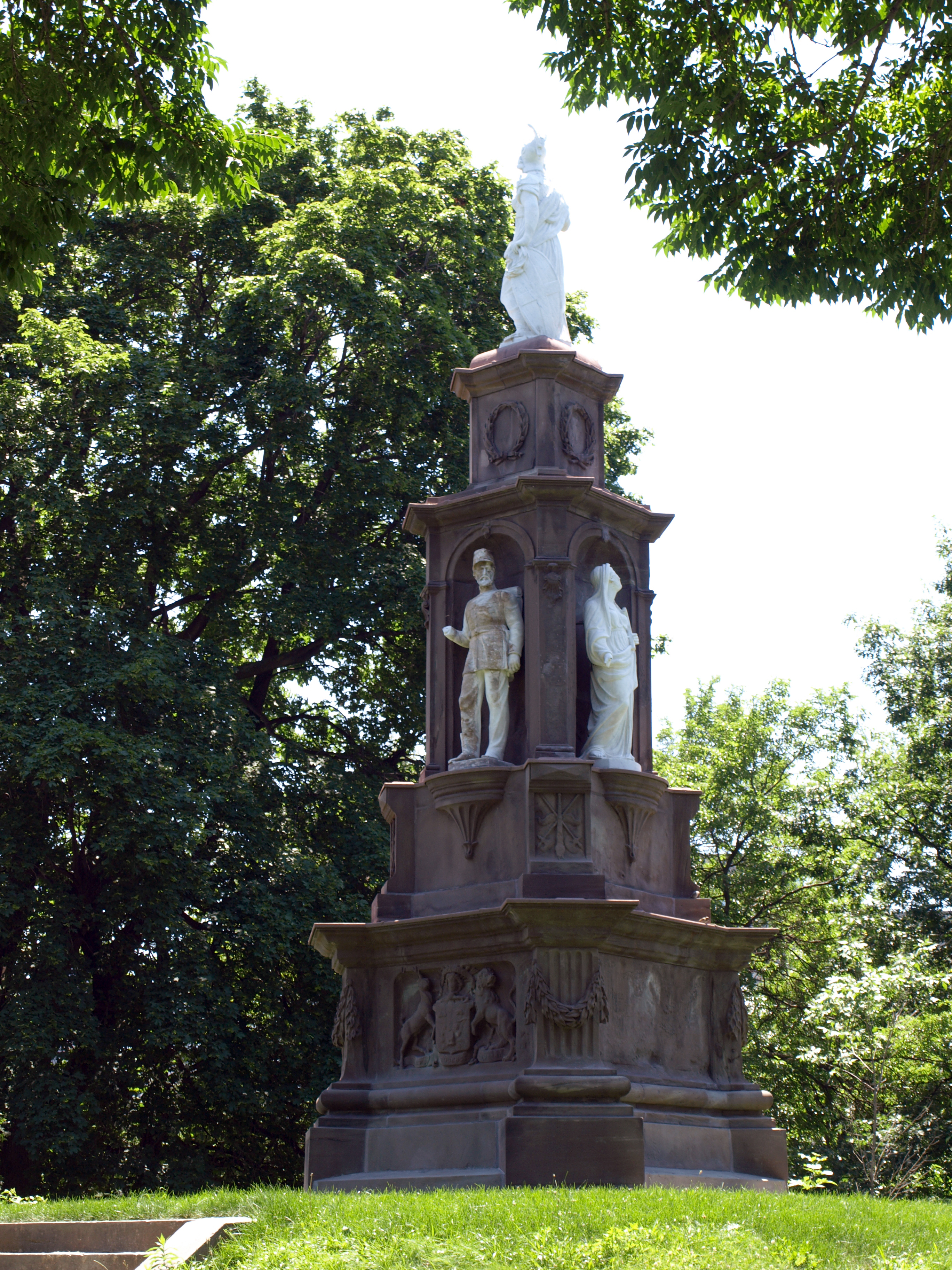 North face of the Fenian Monument located on the University of Toronto campus, Toronto.